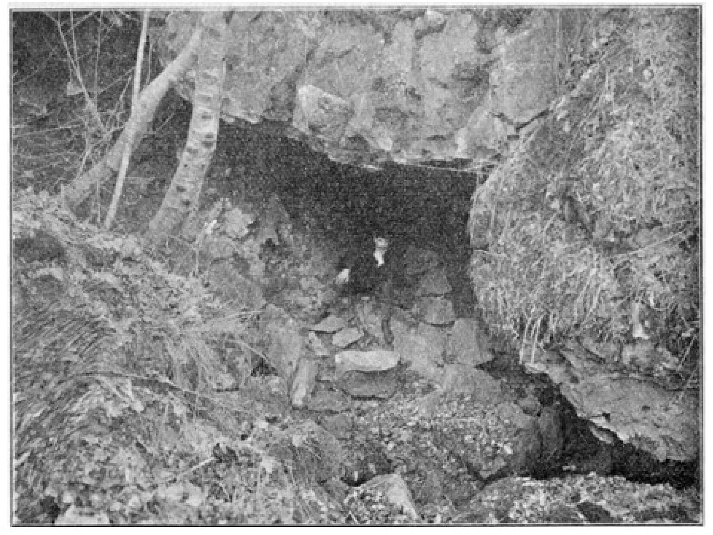 Entrance of the Macska Cave, Csobánka, Hungary